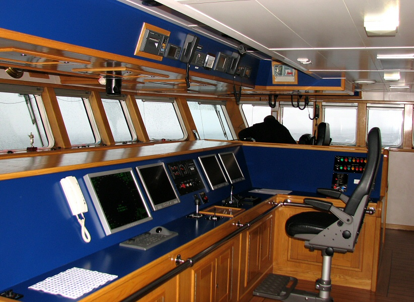 Bridge of Antarctic longliner "Tronio"